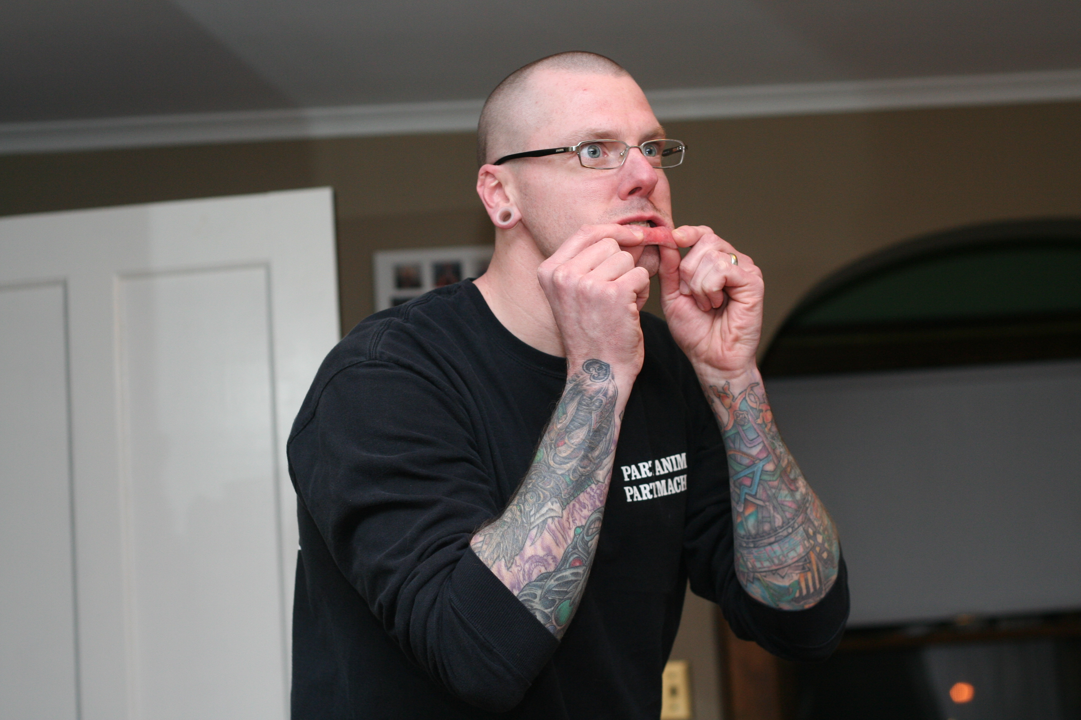 Man playing charades